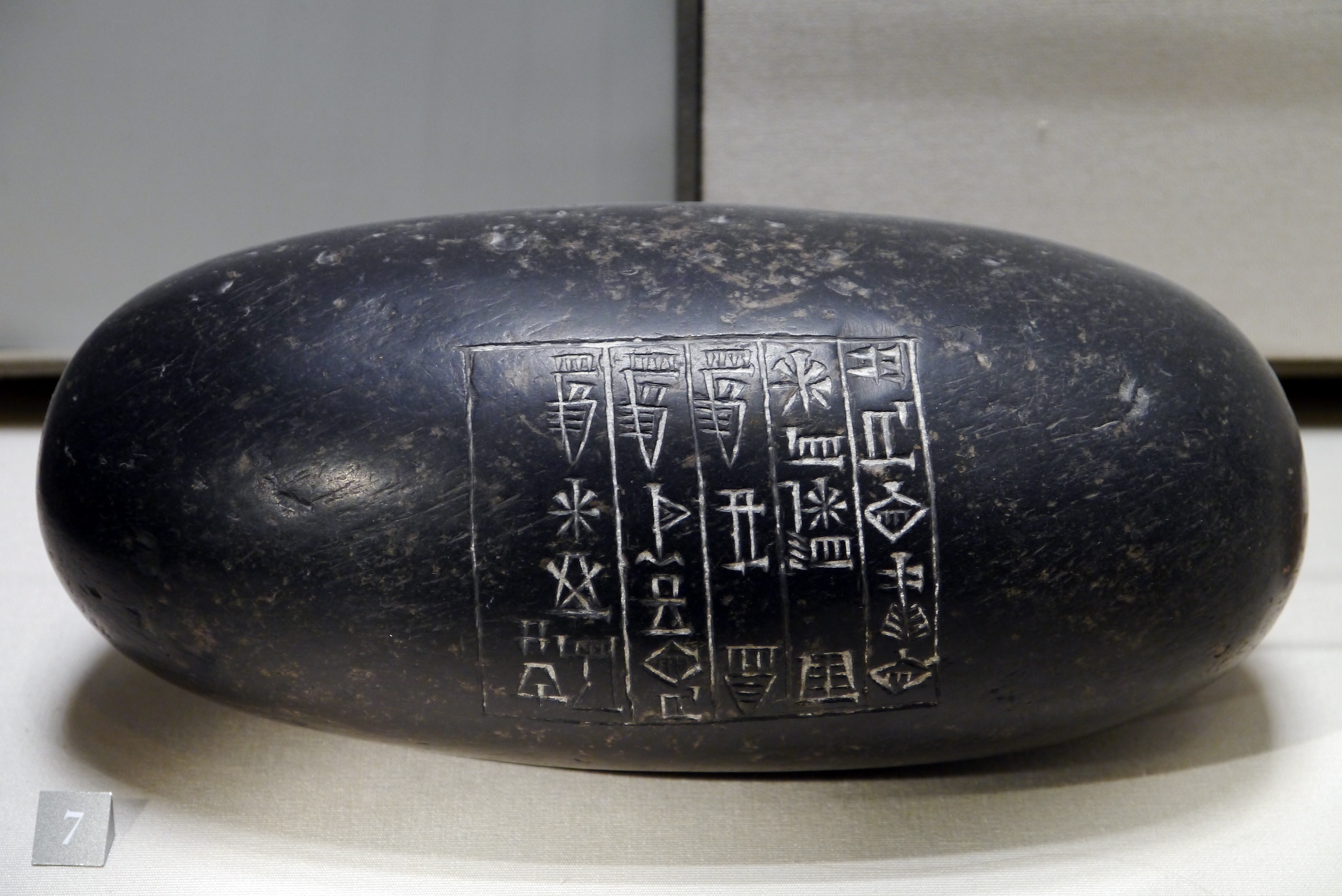 WeightAO 246